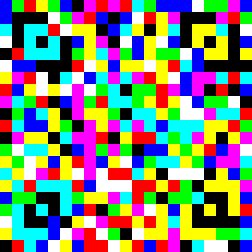 JAB code containing Wikipedia greetings with link to Wikipedia created using site.